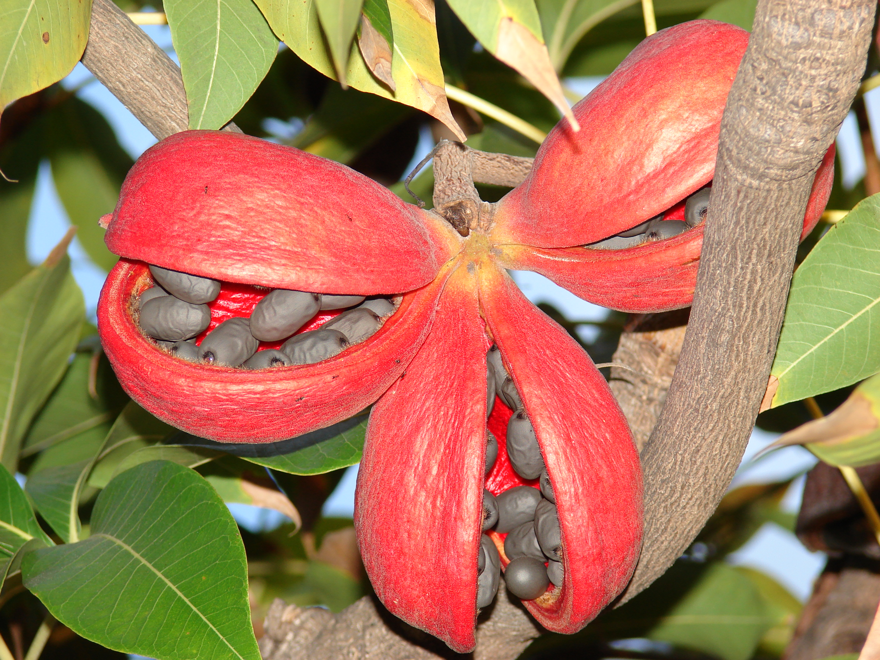 Sterculia foetida (fruit). Location: Oahu, Ala Moana Beach Park